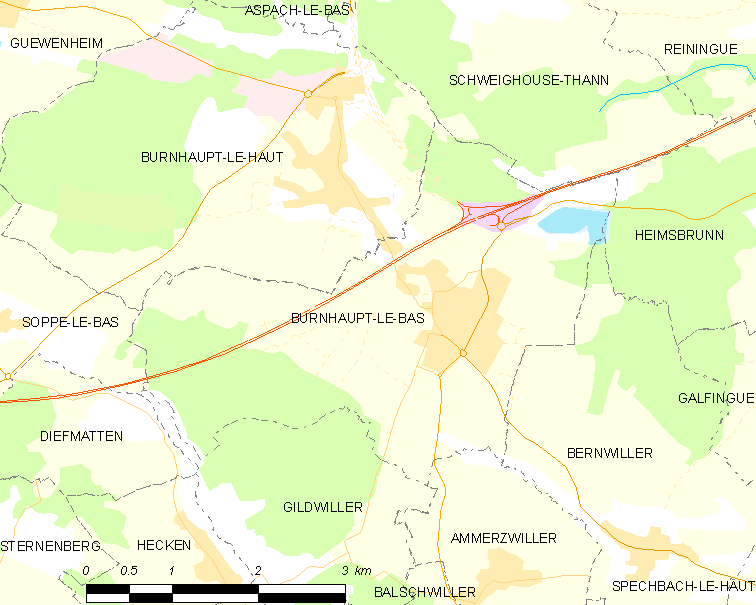 Map of French municipality